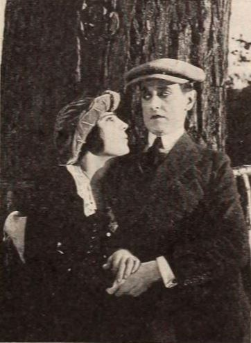 Still from the American comedy film Nothing But the Truth (1920) with Poppy Wyndham aka Elsie Mackay and Taylor Holmes, on page 105 of the January 17, 1920 Exhibitors Herald.